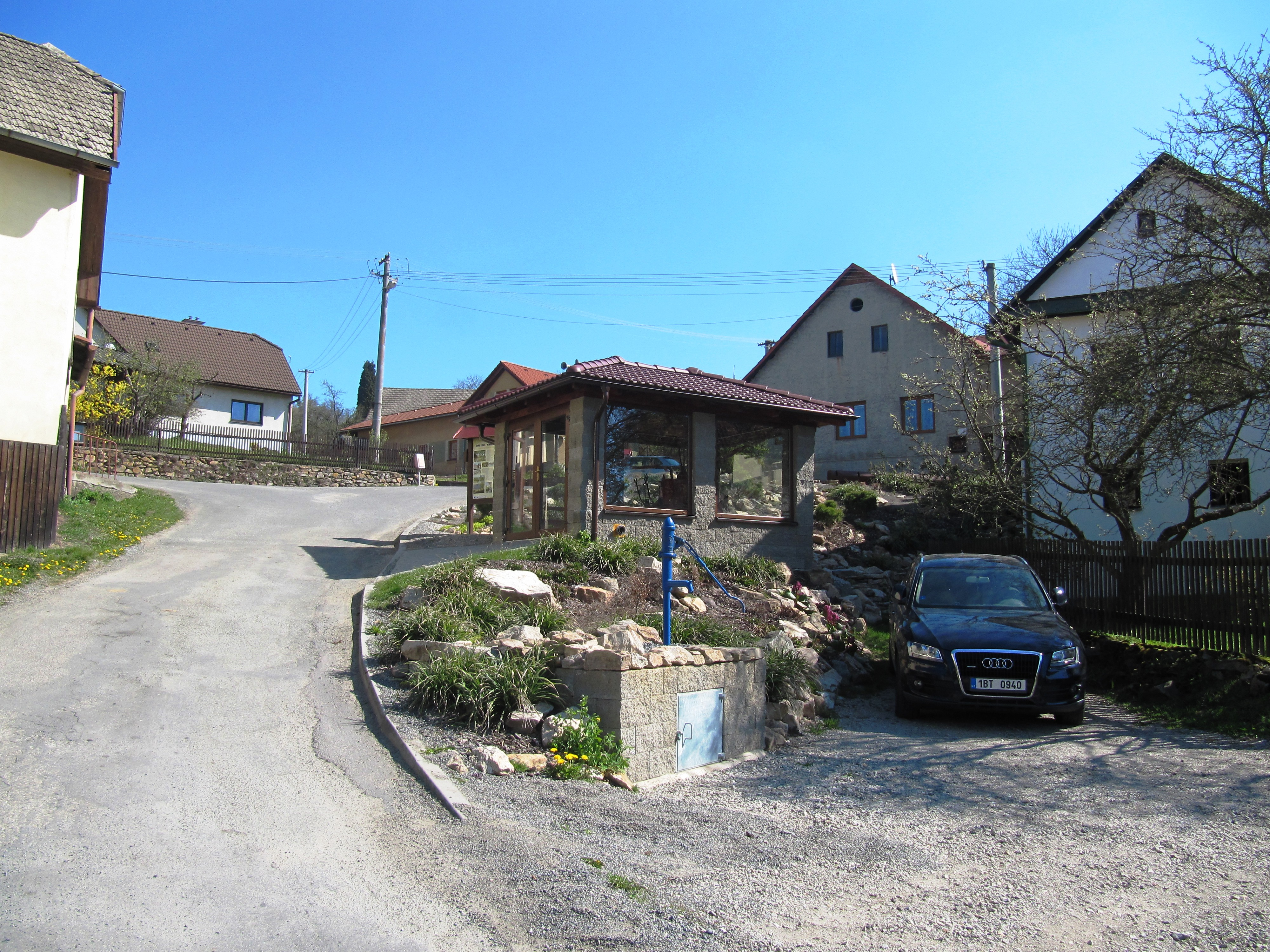 Chlum-Korouhvice, Žďár nad Sázavou District, Czechia, part Chlum.